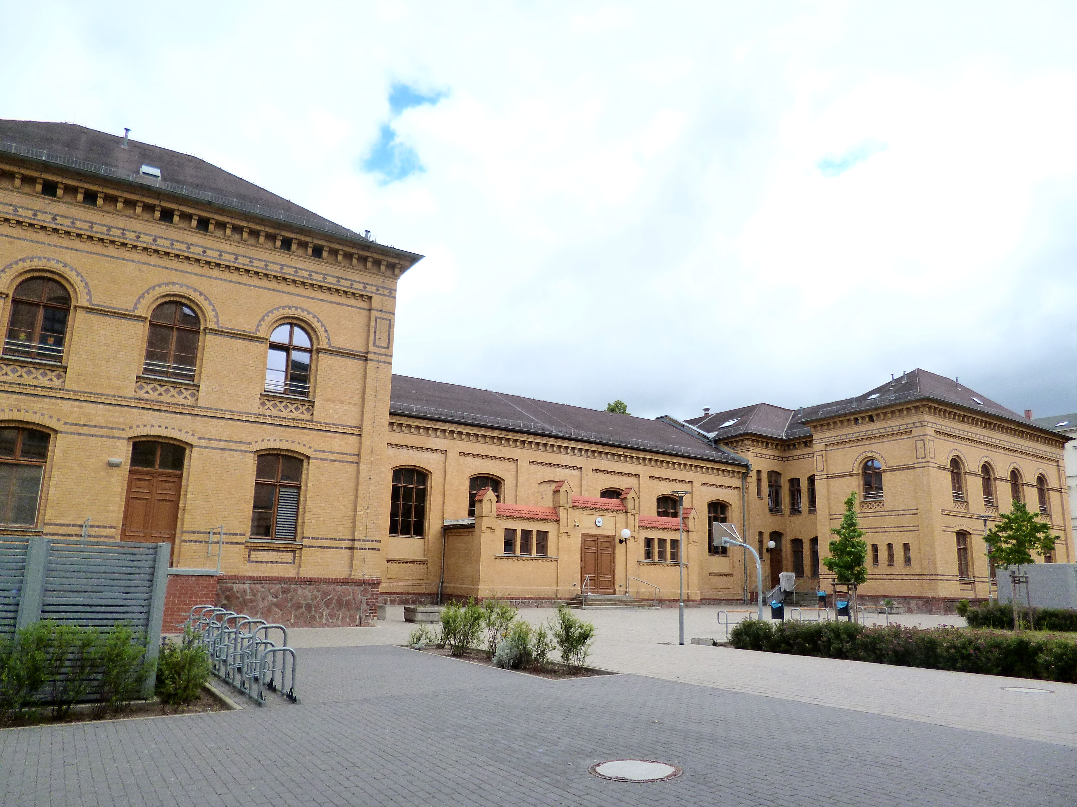 Former Stadtgymnasium, built in 1867/68, Adam-Kuckhoff-Strasse No. 37 in Halle (Saale)